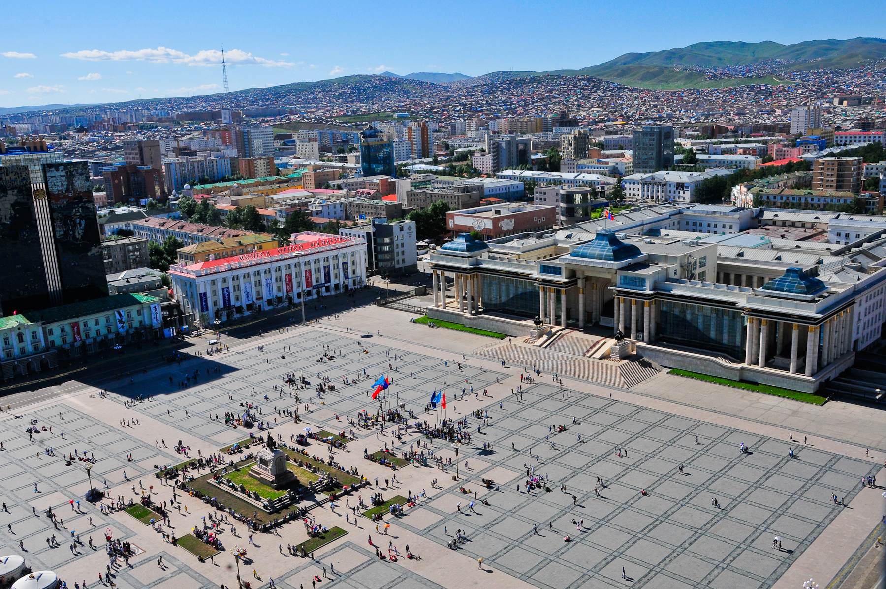 Chinggis Khaan (Sükhbaatar) Square